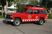 AHBVPA-VTPT 01